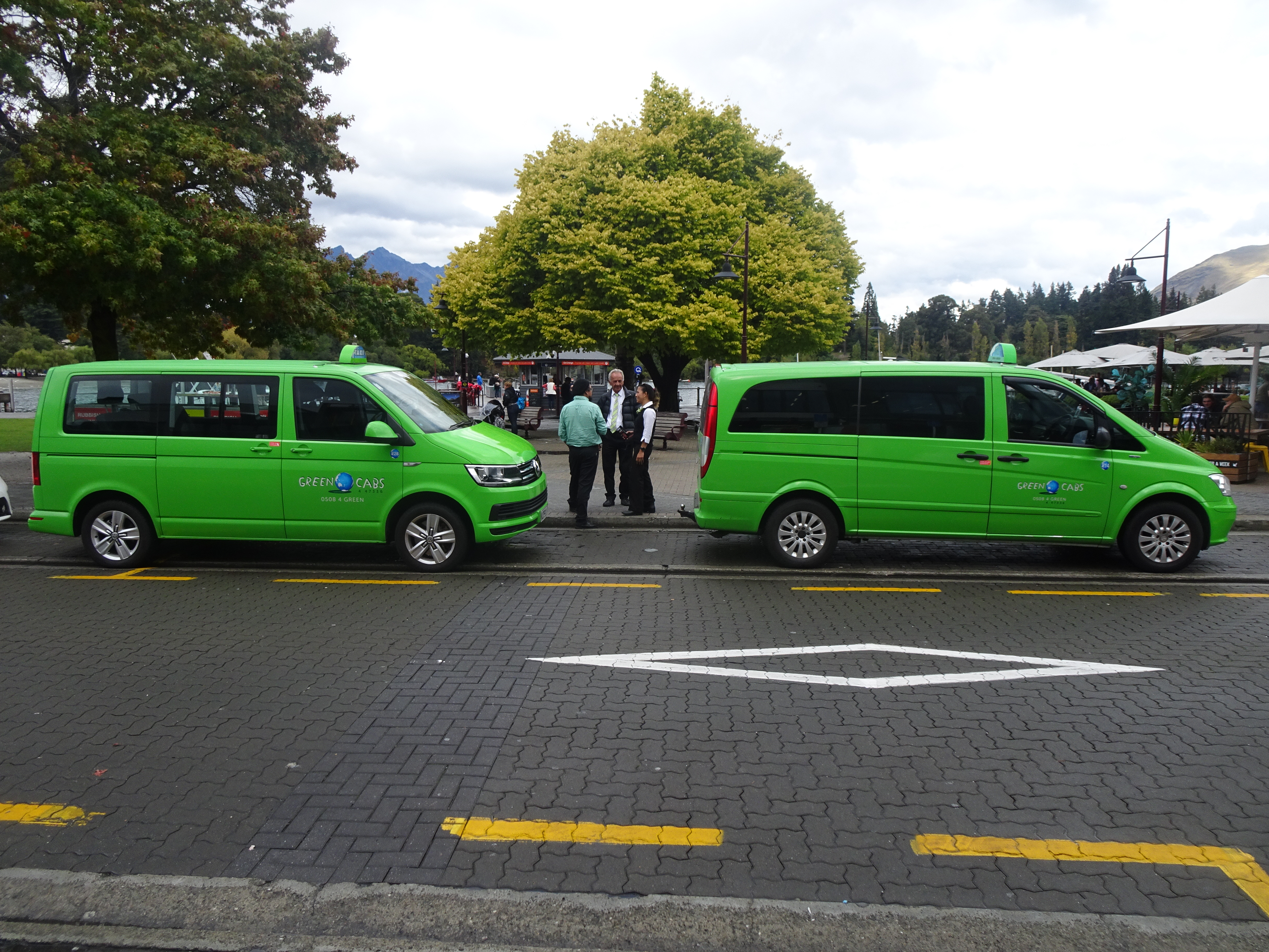 2 green cabs parked near Queentown Bay, Otago, South Island, New Zealand